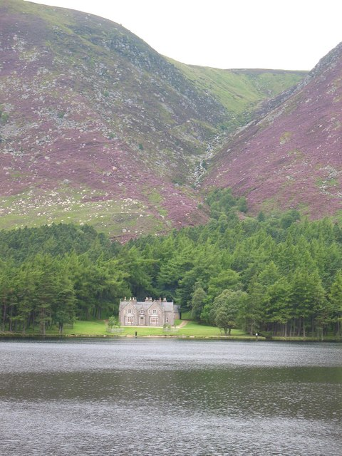 Glas allt Shiel Looking across the loch to the royal's summer house at Glas allt Shiel. A route to the Lochnagar plateau climbs steeply up by the burn at the back of the lodge.